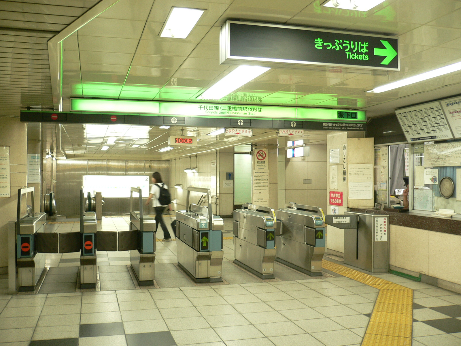 Nijubashimae Station(二重橋前駅) in Chiyoda W, Tokyo M.